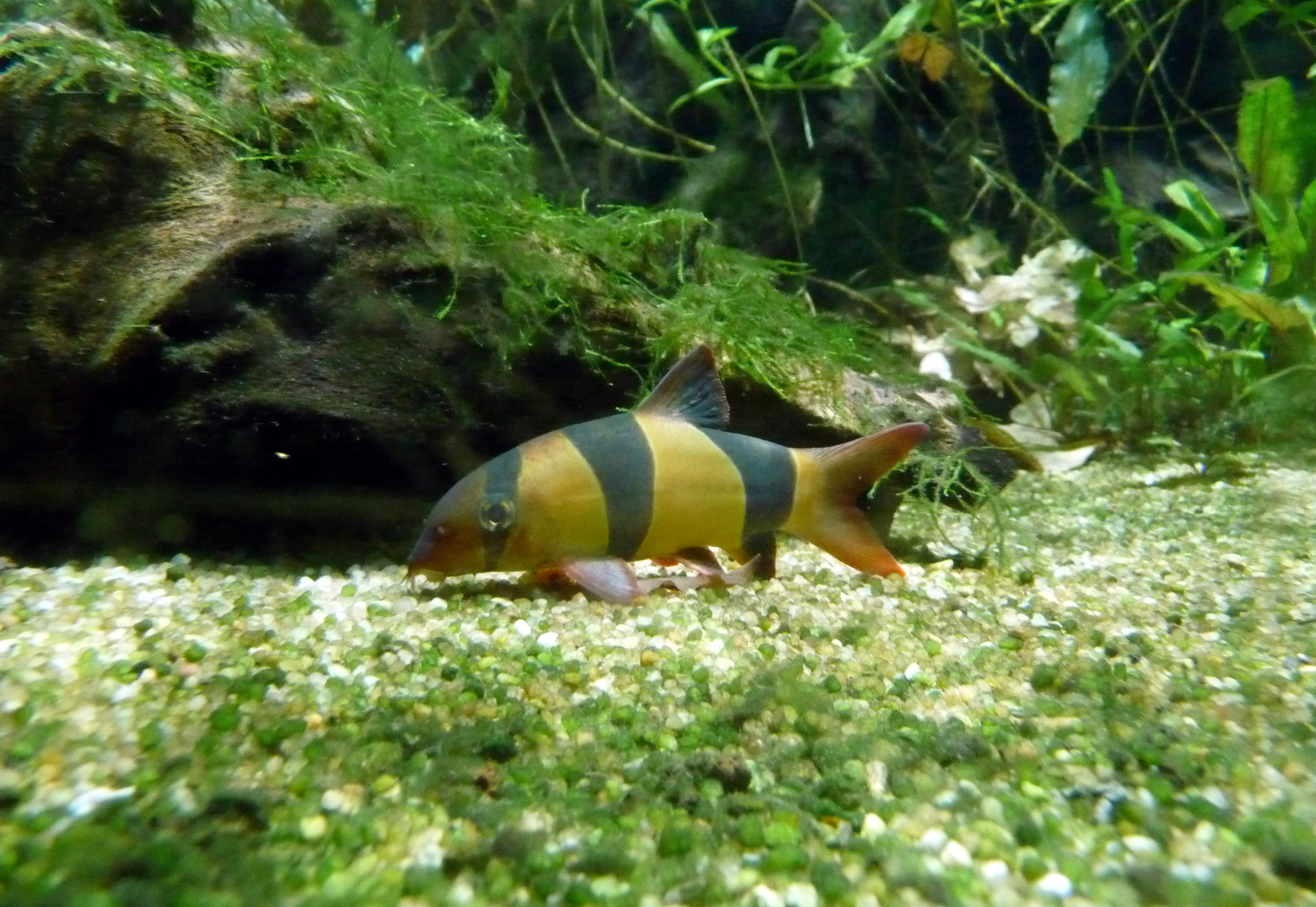 Botia macracanthus